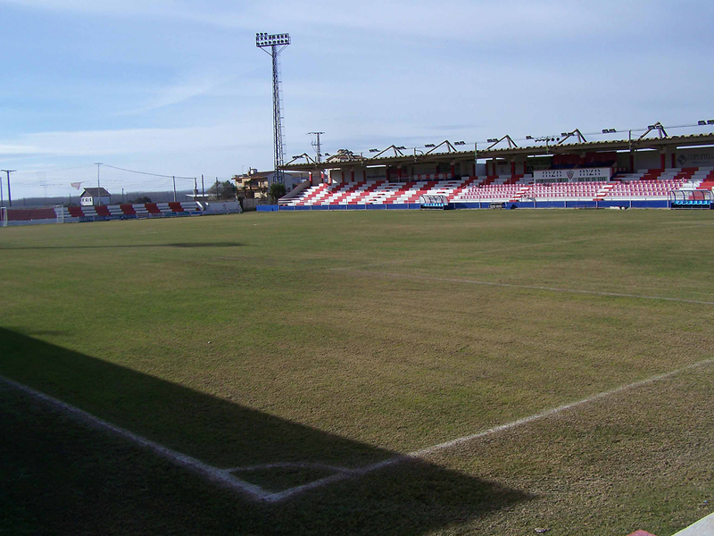 Stady for only 5000 person